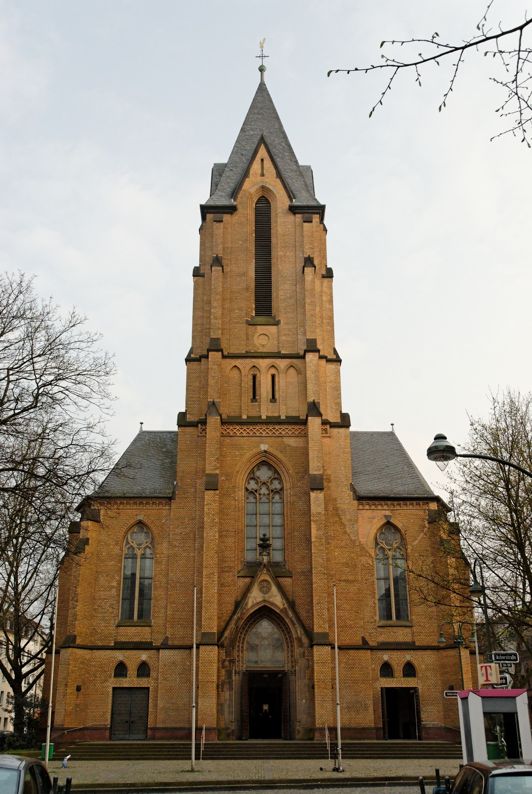 Church of Our Lady in Duesseldorf-Flingern, Germany